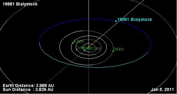 Orbital position of asteroid 19981 Bialystock on 5 January 2011.